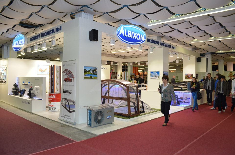 Albion Group on Incheba EXPO Bratislava